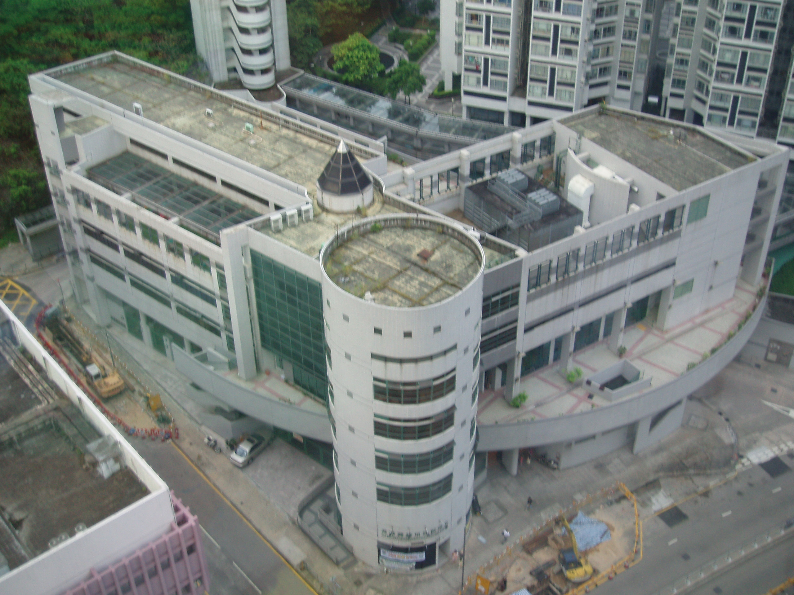 Sai Tso Wan Neighbourhood Community Centre overlook